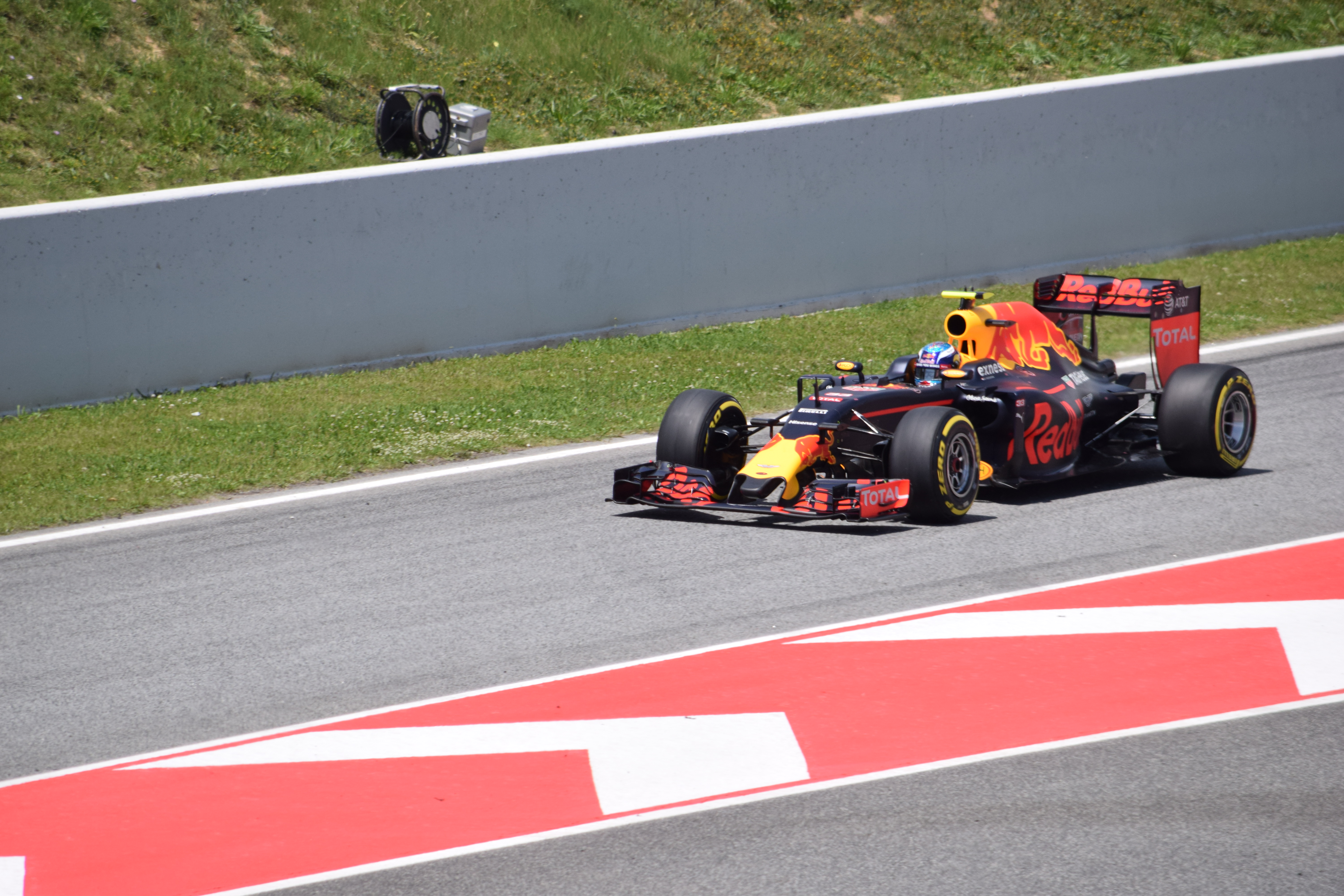 Max Verstappen at the 2016 Spanish Grand Prix